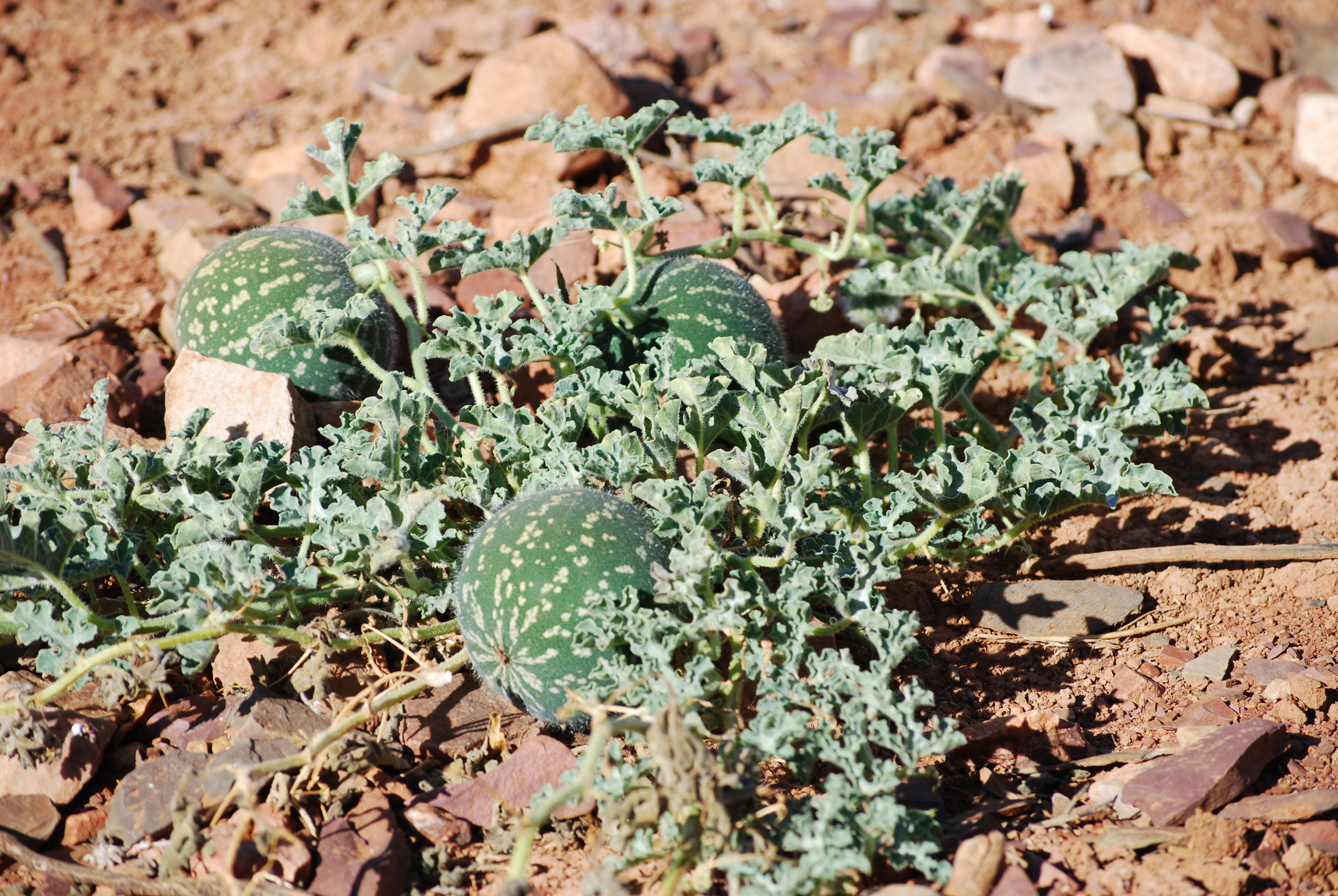 prickly paddy melon (Cucumis myriocarpus), Wilpena Pound, South Australia